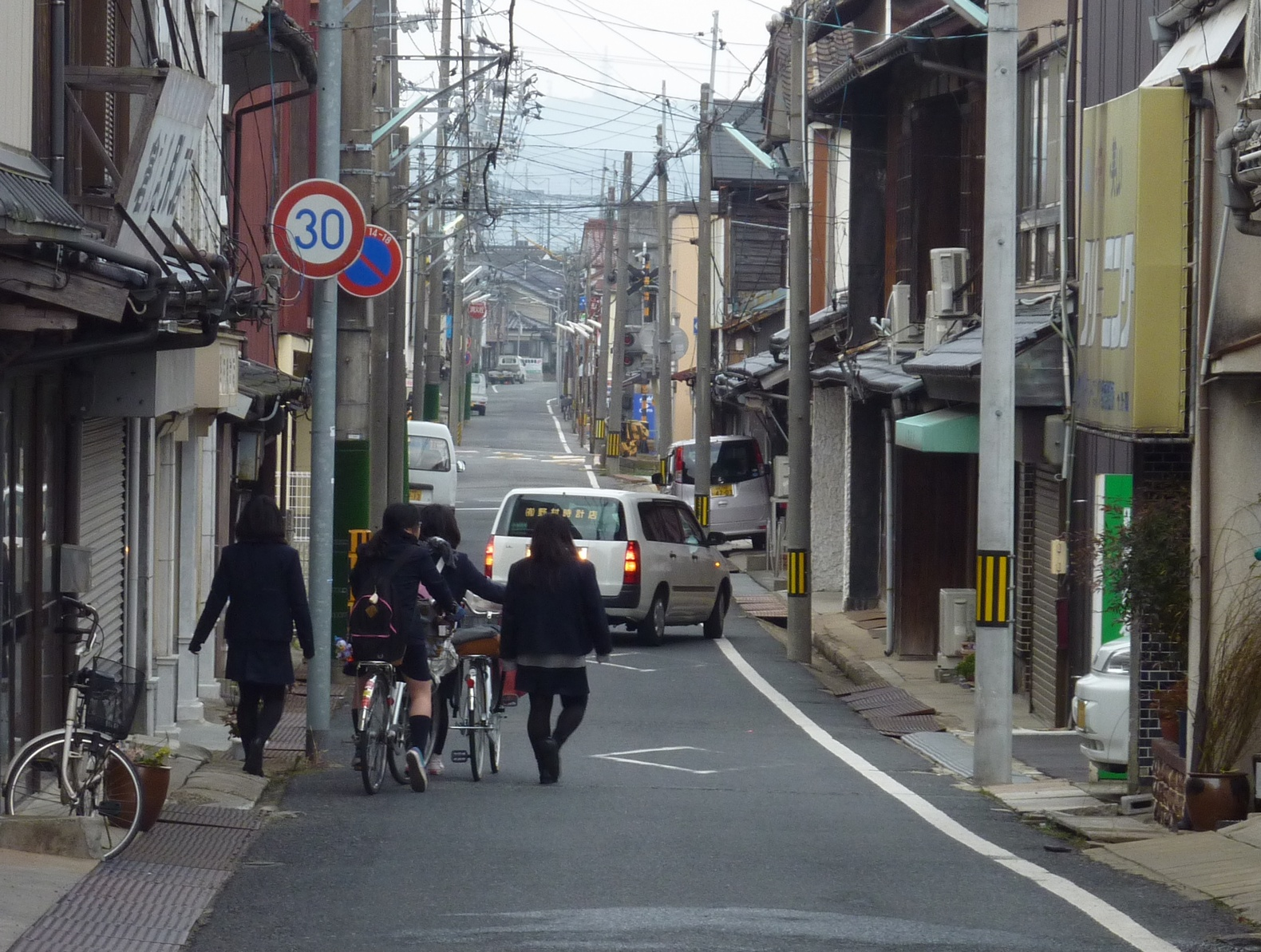 San'yōdō in 2011 (Asa, Sanyo-onoda City, Yamaguchi, Japan)